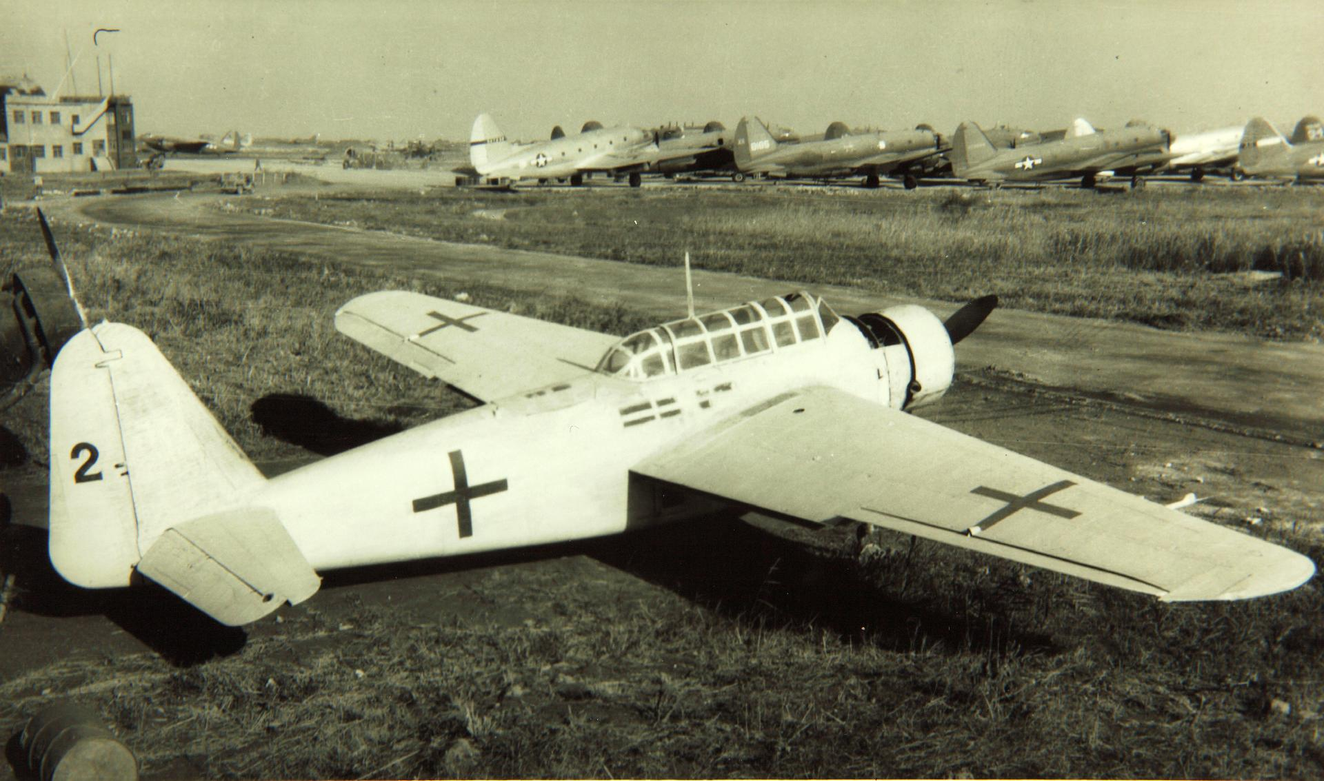 Kyushu K11W Shirgiku crew trainer